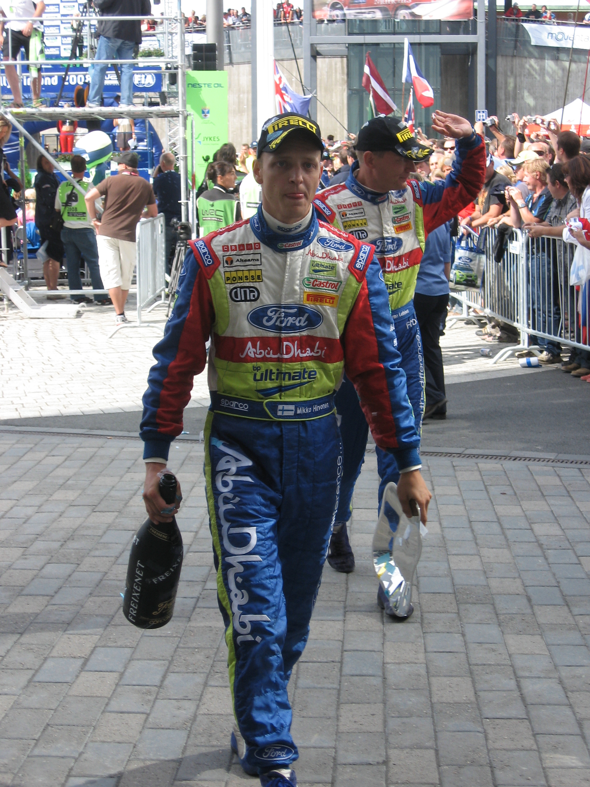 The podium of the 2008 Rally Finland.